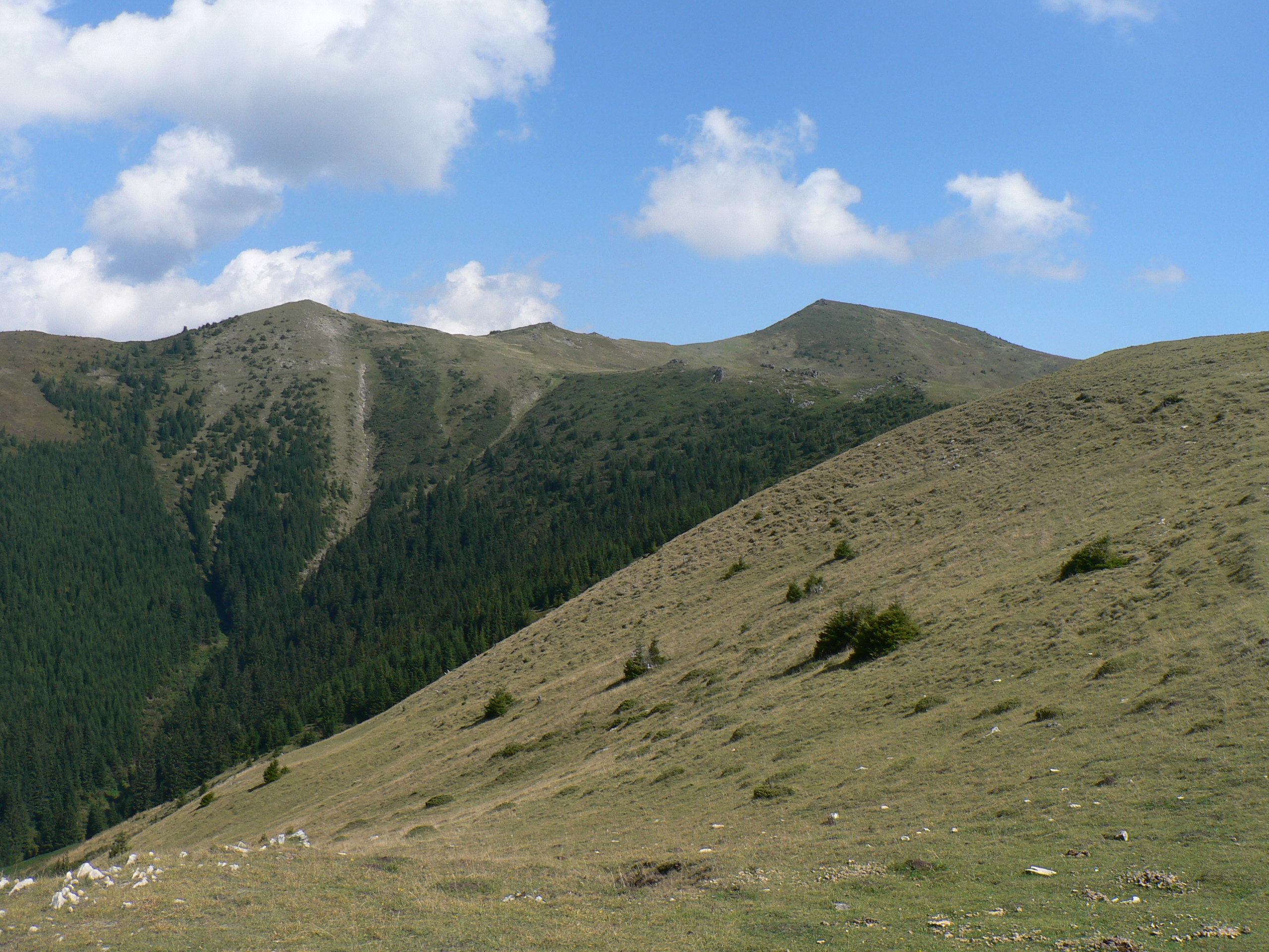 Fagaras Mountains, September 2009